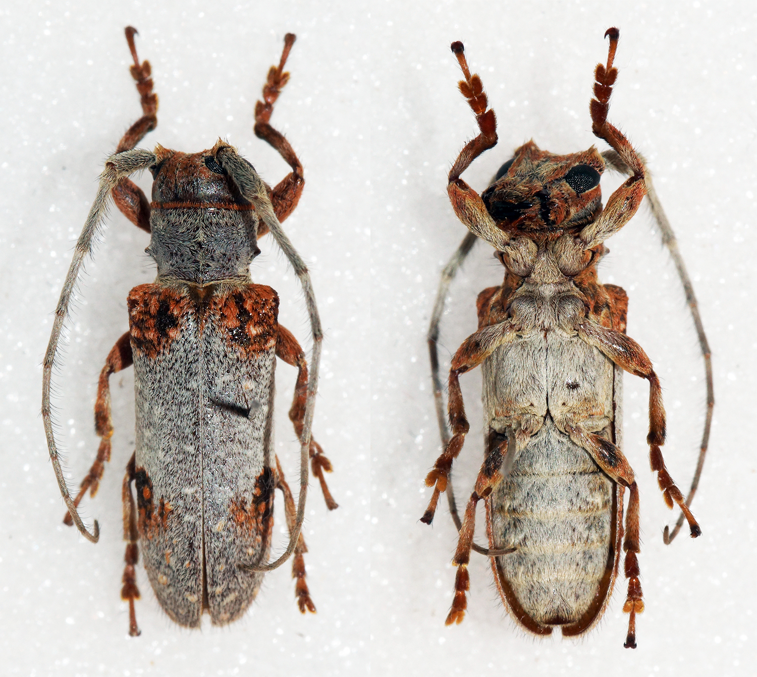 Skinner,1905 Sex: Female Data: 17-07-14 - Madera Canyon - Santa Cruz County - Arizona - USA Size: 17.5mm